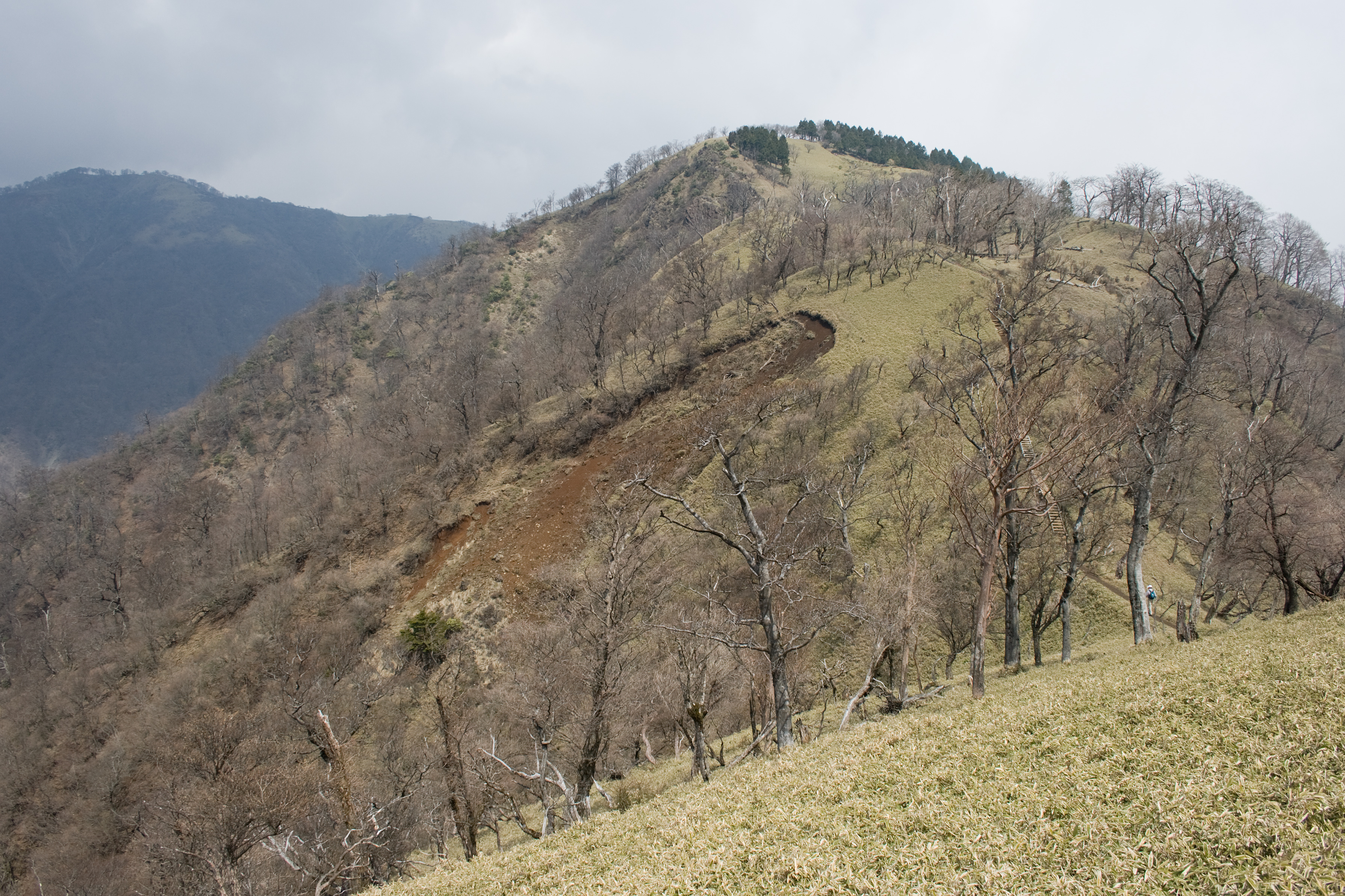 Mt.Ryugabamba, Mts.Tanzawa, Kanagawa, Japan.